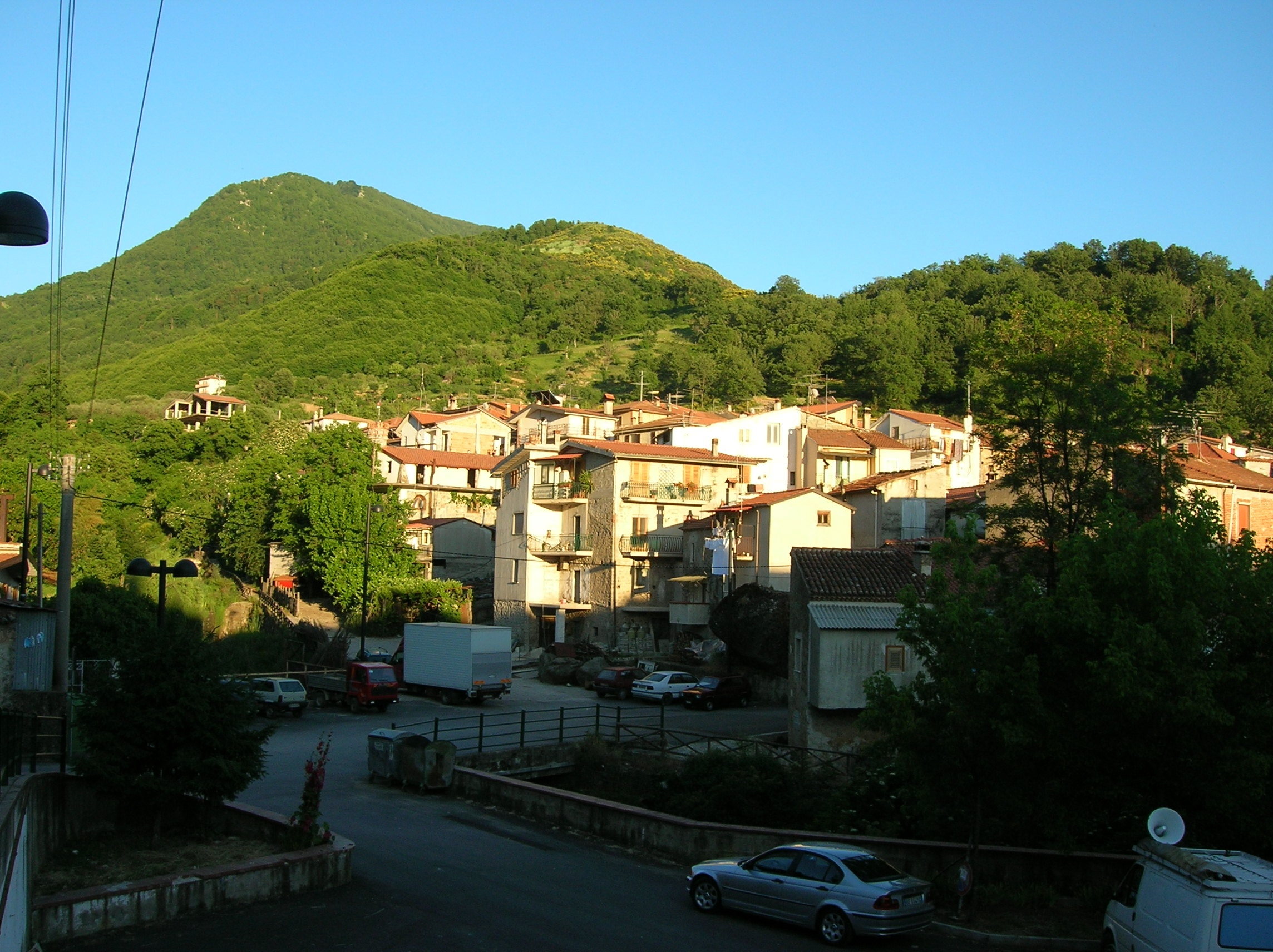 Author: Trond Ramsvik Overview over Cannalonga